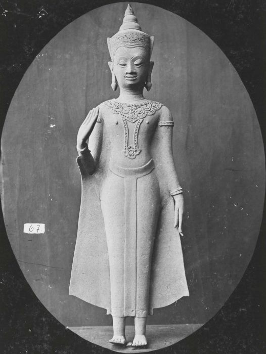 Bronze Buddha sculpture